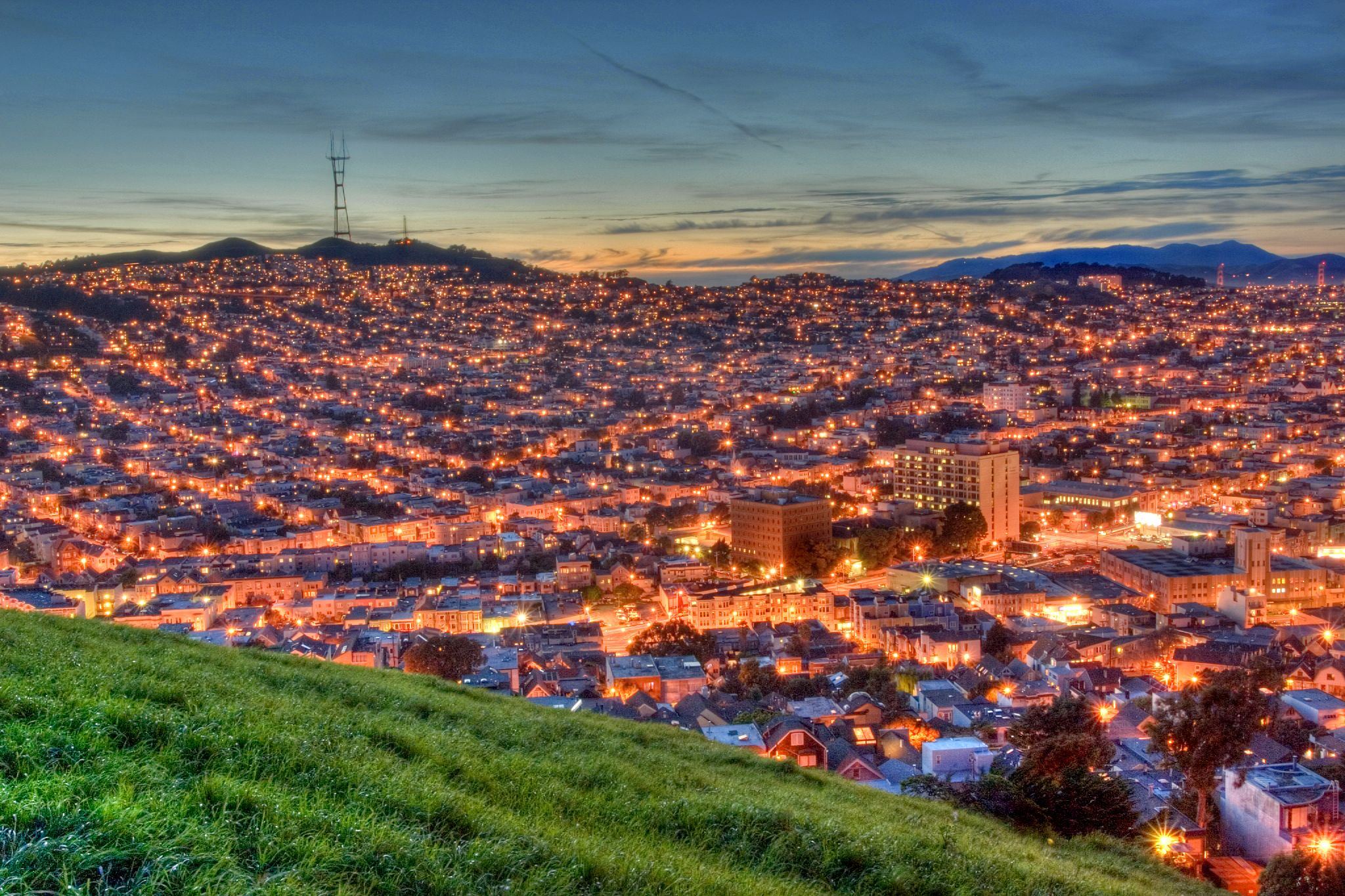 View from Bernal Hill overloooking Noe Valley. Just after sunset looking towards Sutro Tower and Twin Peaks with the GG bridge off to the right.